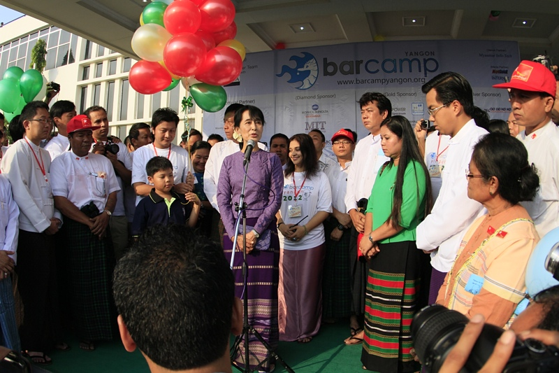 Myanmar democracy icon Aung San Suu Kyi gives a speech during the opening ceremony of BarCamp Yangon 2012. မြန်မာဘာသာ: မြန်မာ ဒီမိုကရေစီ ခေါင်းဆောင် ဒေါ် အောင်ဆန်းစုကြည် မှ ဘားကမ့် ရန်ကုန် ၂၀၁၂ ဖွင့်ပွဲအခမ်းအနားတွင် မိန့်ခွန်းပြောကြားစဉ်